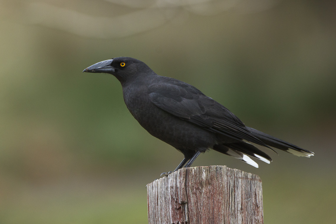 Black Currawong - Tasmania_S4E6666